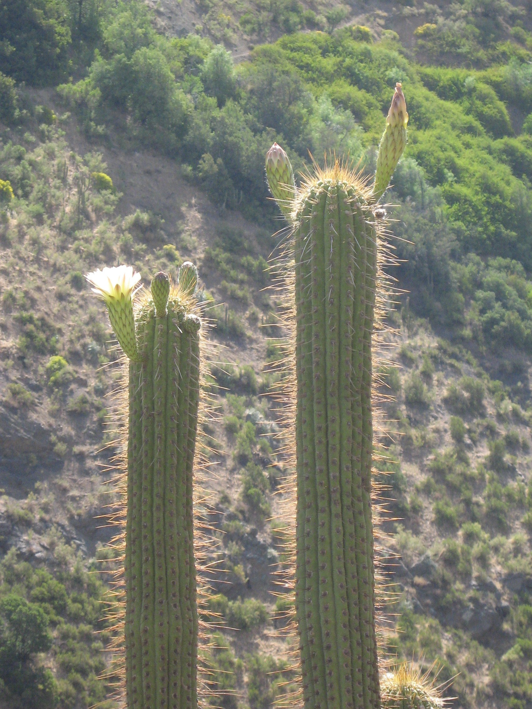 Echinopsis chiloensis subsp chiloensis, taken in Cajon de Maipo, Chile